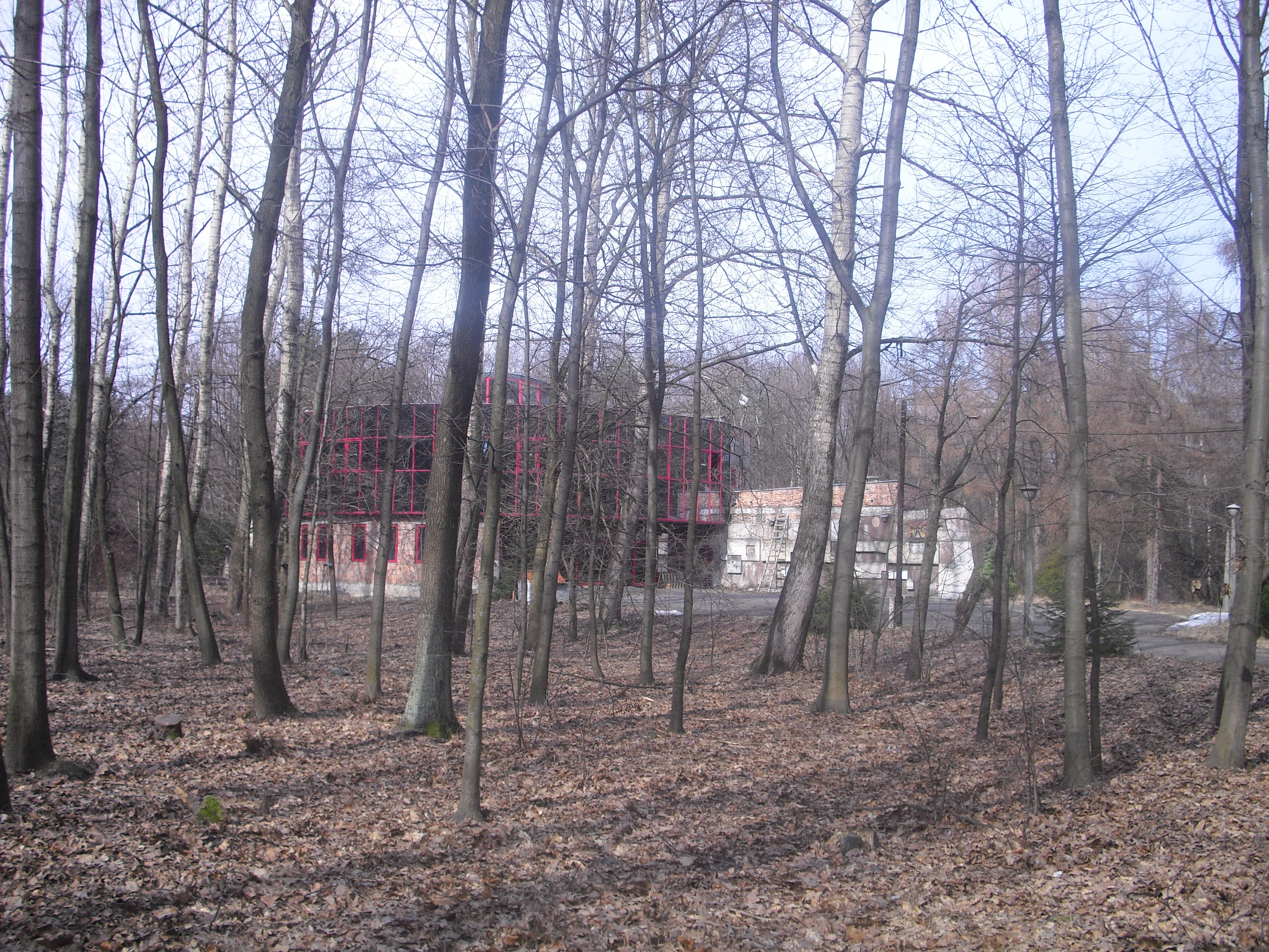 Nikita Khrushchev's villa in Katowice Ligota. Builded in 1959. Actually, Nikita Khrushchev never was there. After assassination attempt against him in Sosnowiec, building was abandoned. Today it is in refit for private owner.